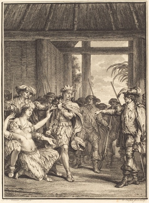 Christopher Colombus seizing the Guanahani cacique. Etching, between 1774 and 1783, 18,3 x 13,5 cm. This print was published in La découverte du Nouveau Monde, by Jean-Jacques Rousseau. The characters where the cacique of Guanahan island, Digizé, his wife, and Christopher Colombus. National Gallery of Art, Washington, D.C.